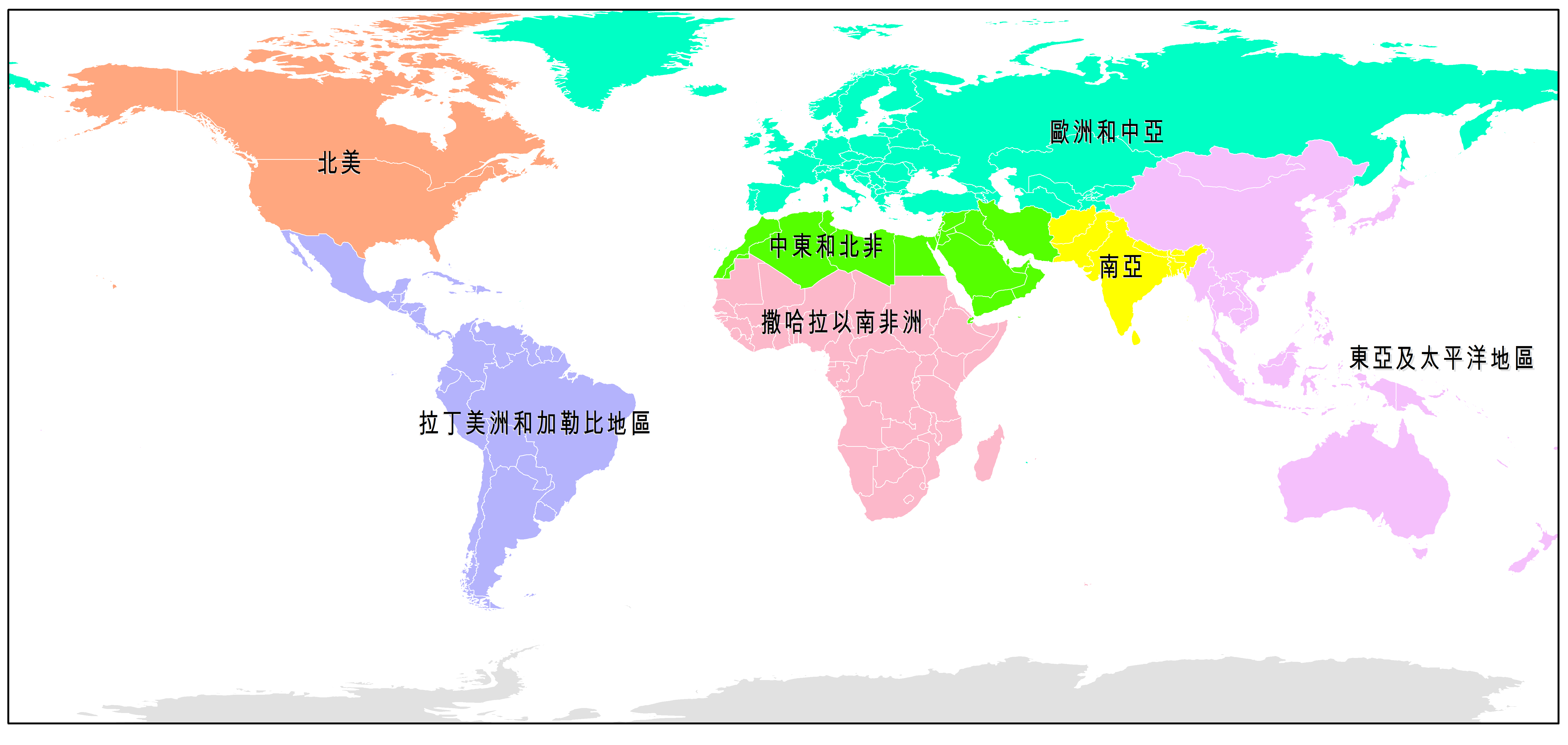 World Bank regions: countries are separated into 6 World Bank regions, separating out high-income countries as a 7th group: High Income, East Asia and Pacific, Europe and Central Asia, Latin America and the Caribbean, Middle East and North Africa, South Asia and Sub-Saharan Africa. See Definition of region groupings